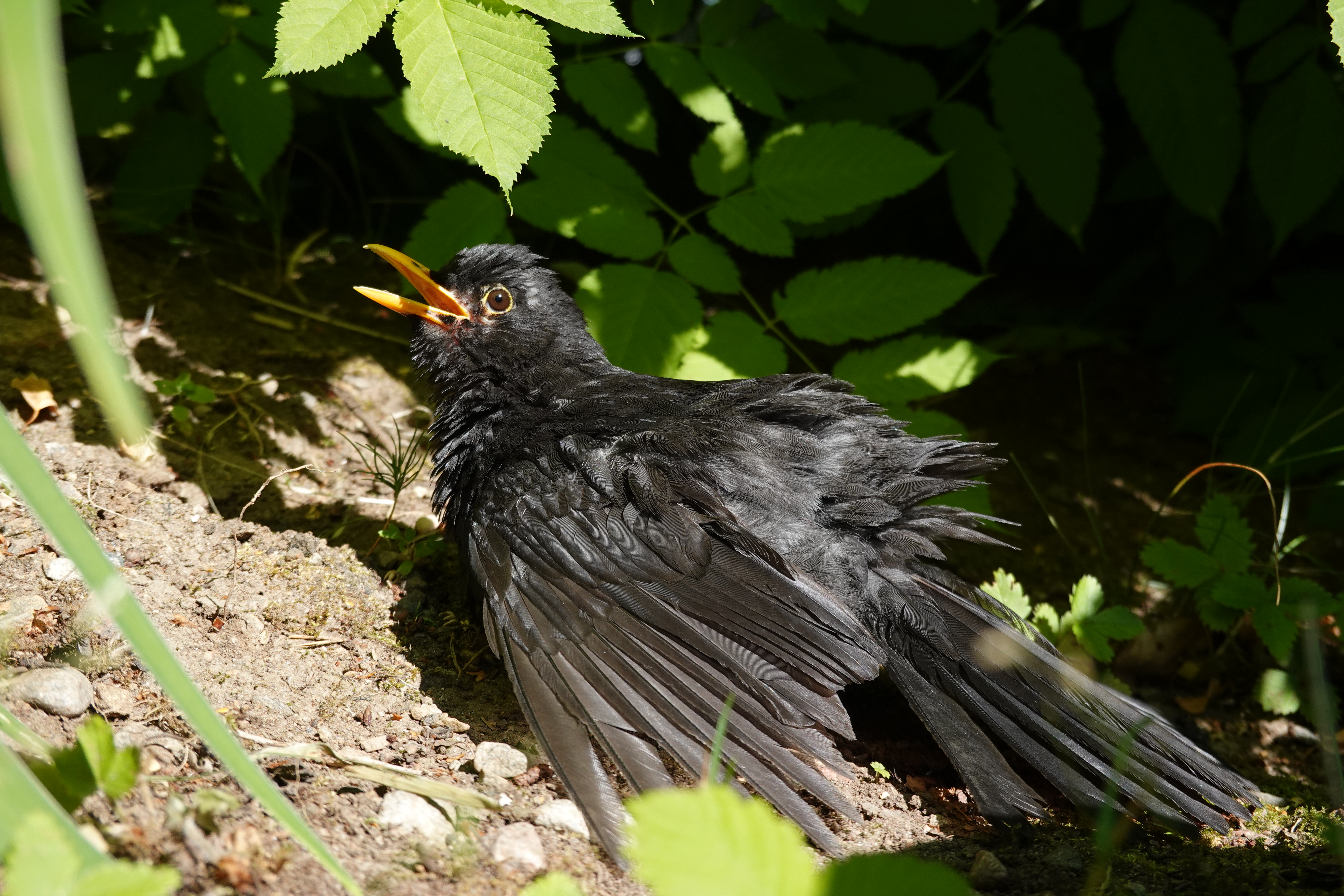 Blackbird warming up in the sun on a July afternoon. Photo taken in Sweden with data straight from camera.